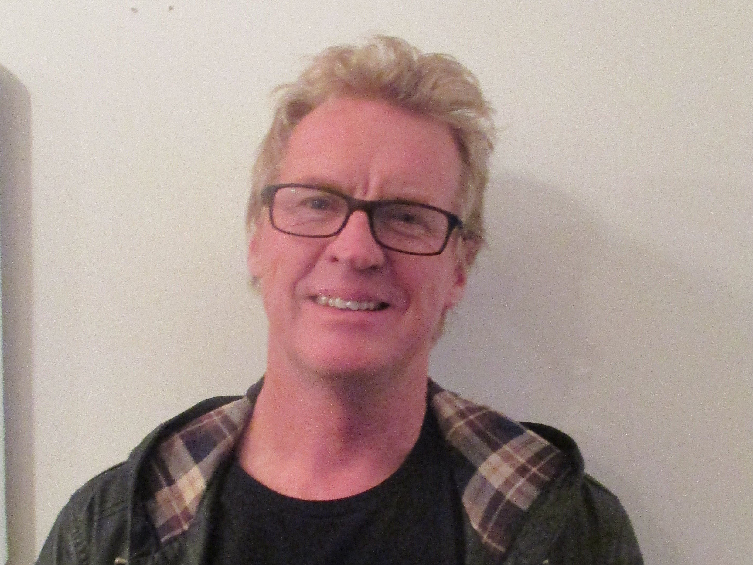 Don McGlashan before his concert at the Raglan Club in Raglan, New Zealand on 26 September 2015.